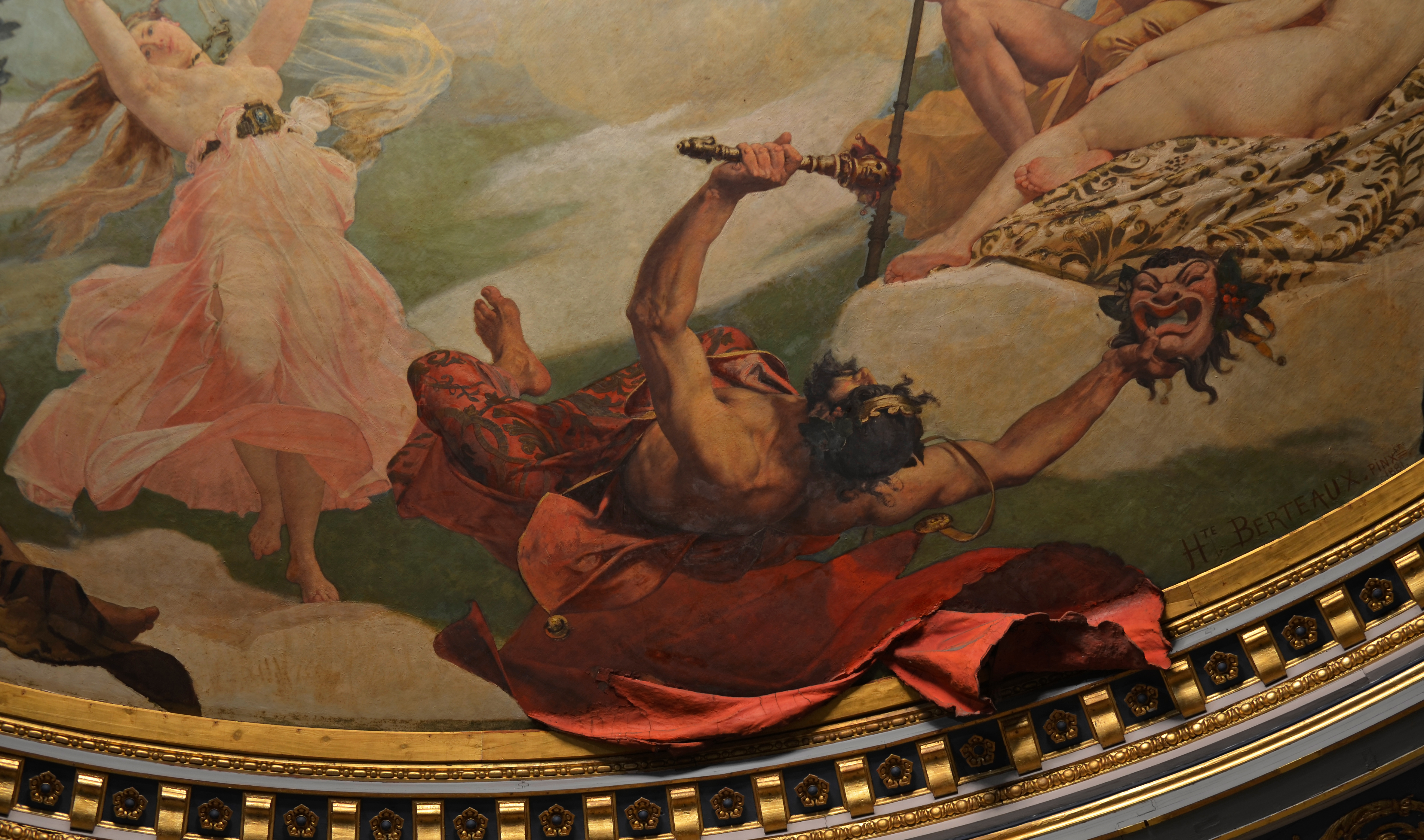 Momus, god of satire and mockery - Painting by Hippolyte Berteaux, Théâtre Graslin ceiling - Nantes